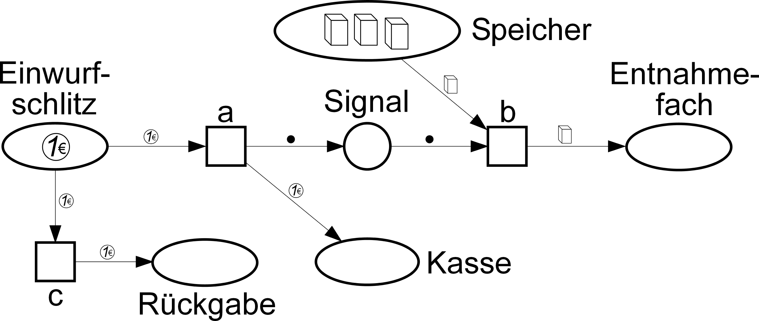 petri net example 2